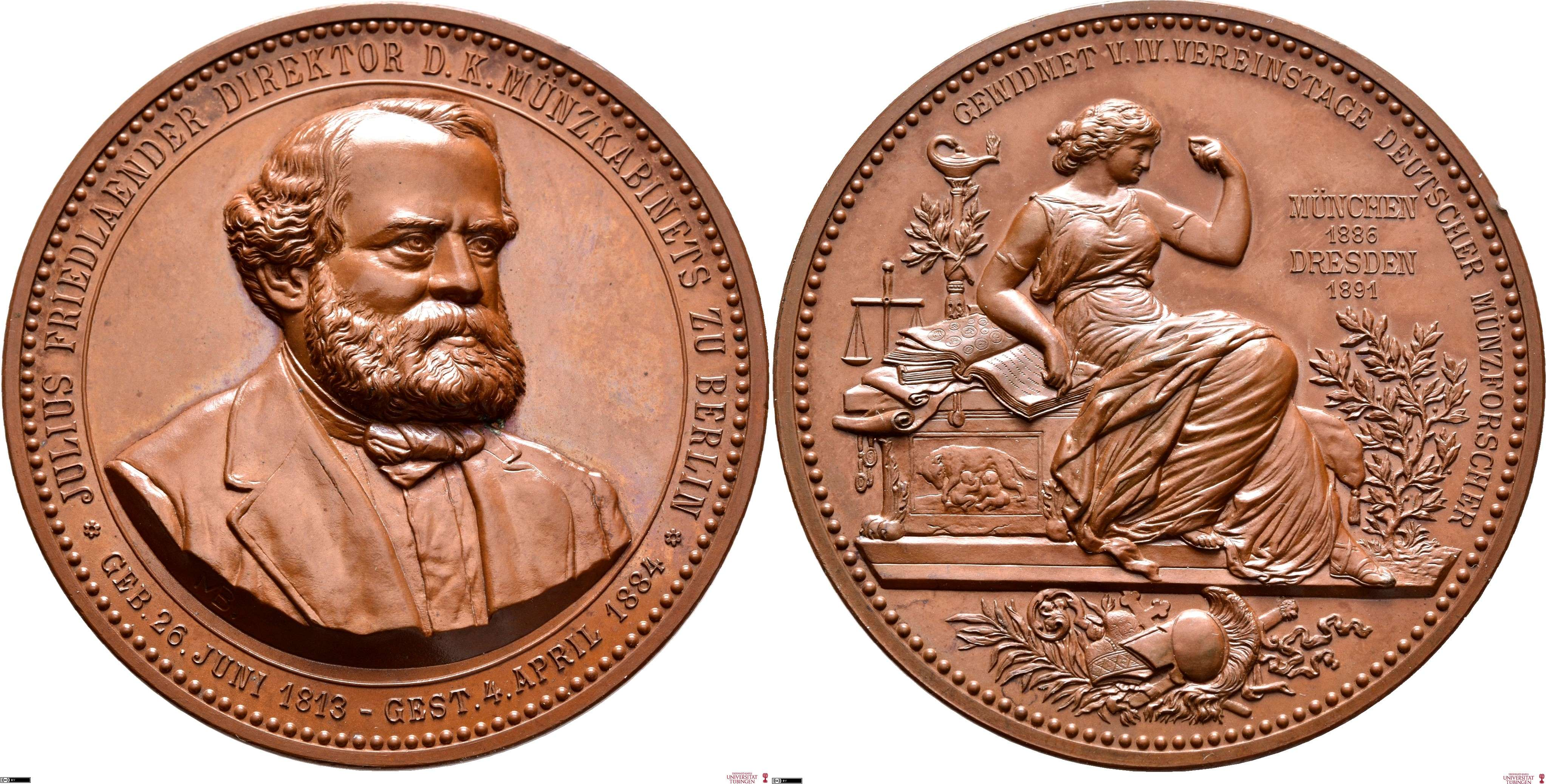 The front side depicts a bust of Friedlaender in three-quarter view surrounded by name, date of birth and death as well as his employment as head of numismatic department of the Berlin museum of ancient art. The engraver Max Barduleck signed below the bust "MB". The back side shows a reclined female in neoclassical stile. She is surrounded by historical and numismatic attributes. The dedication names occasion and year of strucking the medal in German. The occasion is named as the annual convention of German coin collectors, who decided to commission the medal in Munich 1886. Said medal was issued on the next meeting in Dresden 1891.